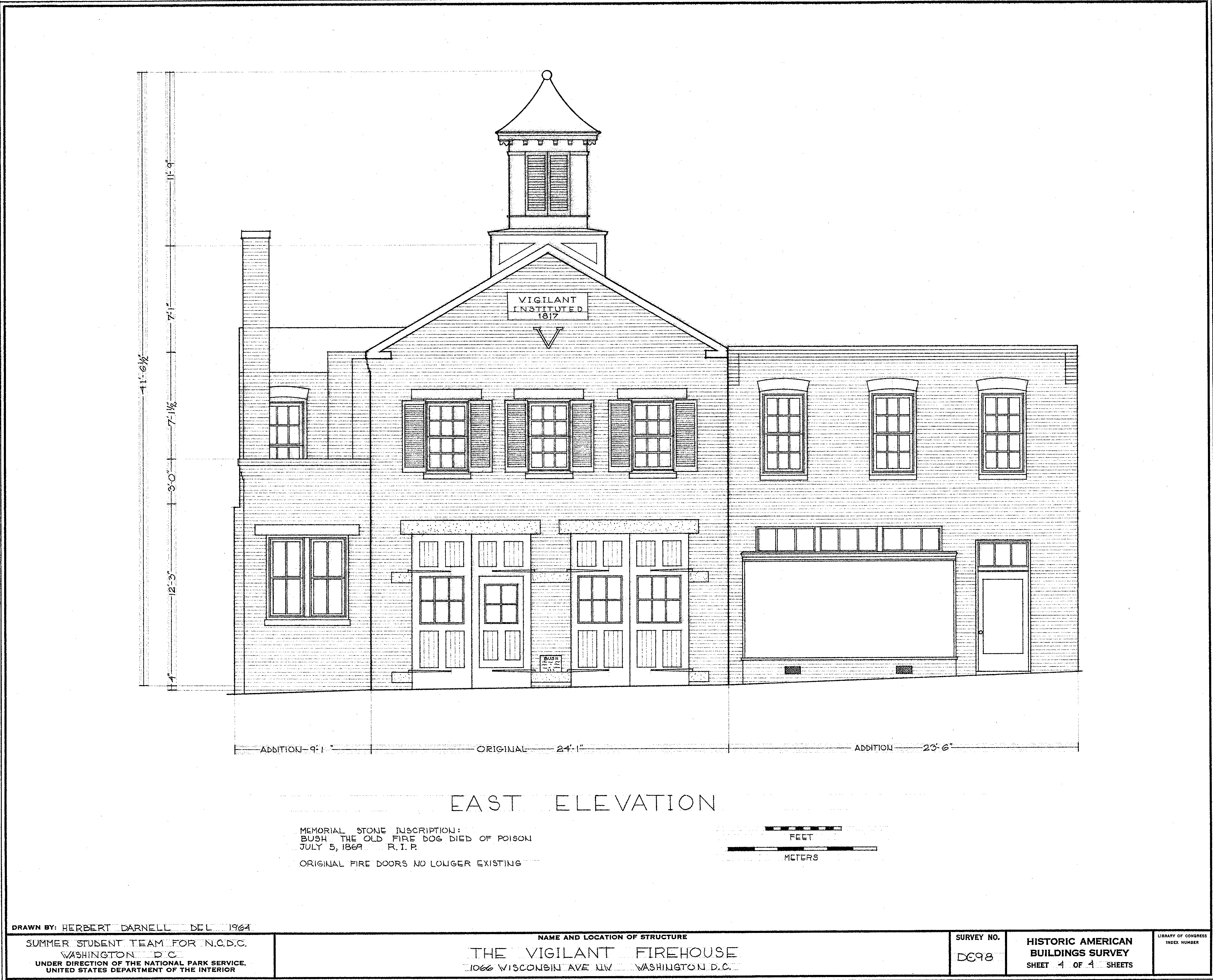 Vigilant Firehouse — at 1066 Wisconsin Ave., NW. in the Georgetown neighborhood of Washington, DC. Built 1844 — the oldest extant firehouse in DC. On the National Register of Historic Places-NRHP since May 6, 1971. 1964 Image courtesy of Historic American Buildings Survey—HABS.